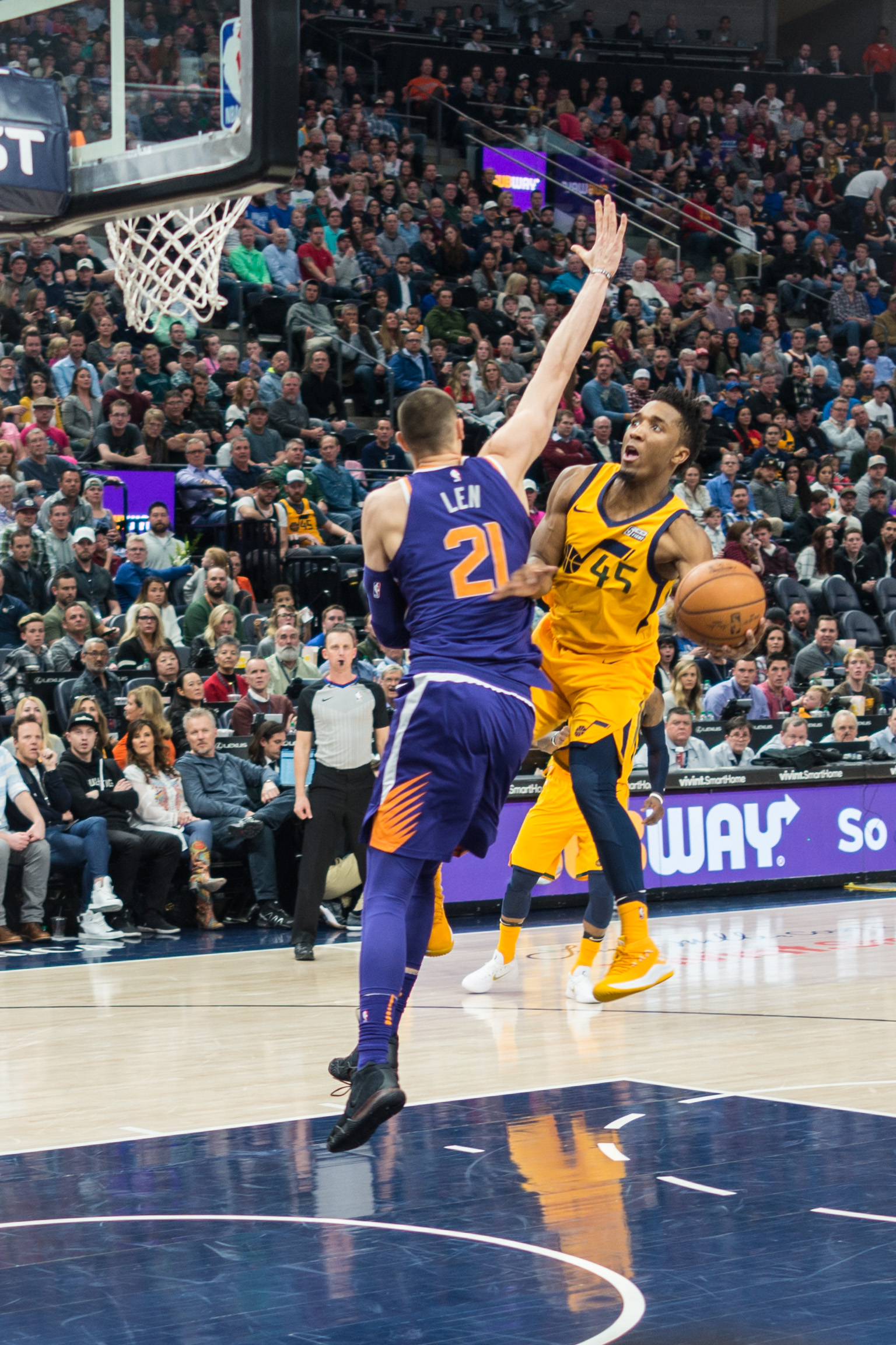 Donovan Mitchell makes an impressive underhanded layup shot in March 15, 2018 game against Phoenix Suns.